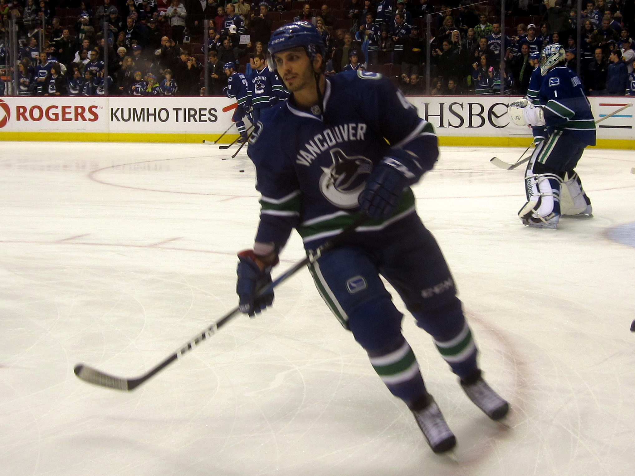 Vancouver Canucks forward Maxim Lapierre during a pre-game warmup on March 14, 2012.